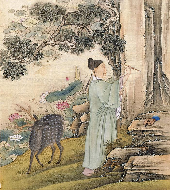 From Album of the Yongzheng Emperor in Costumes. One of 14 album leaves